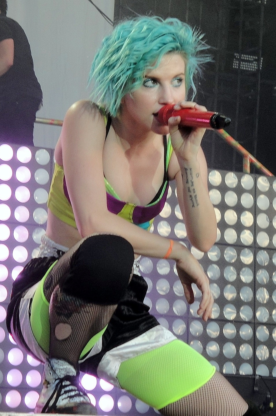 Hayley Williams live in concert at Oklahoma City.